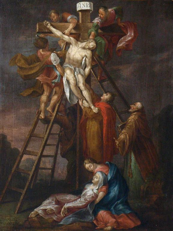 Keitum (Sylt), Slesvic-Holstein (Germany): church,baroque painting, photo 2008